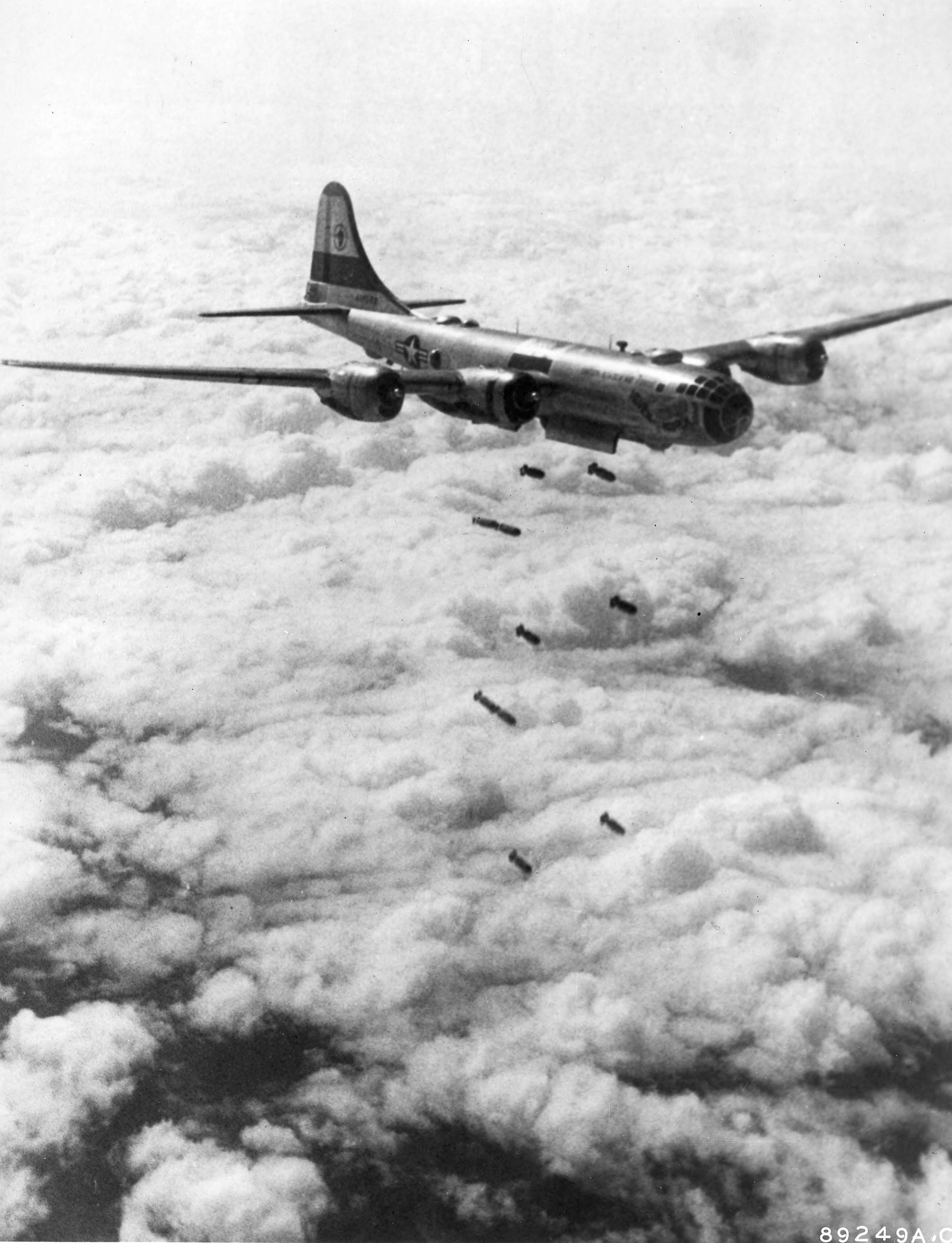 Husky 1,000-pound demolition bombs hurtle from this U.S. Far East Air Forces B-29 "Superfort" of the 19th Bomb Group toward a Communist target somewhere beneath the cloud layers in Korea. Bomber Command "Superforts" are able to unload heavy tonnages of bombs with pin-point precision despite thick cloud coverage by use of new techniques in radar aiming. August 1951.